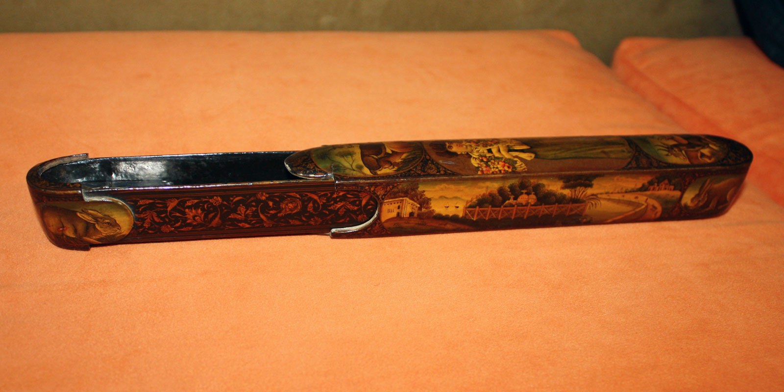 Qalamdan